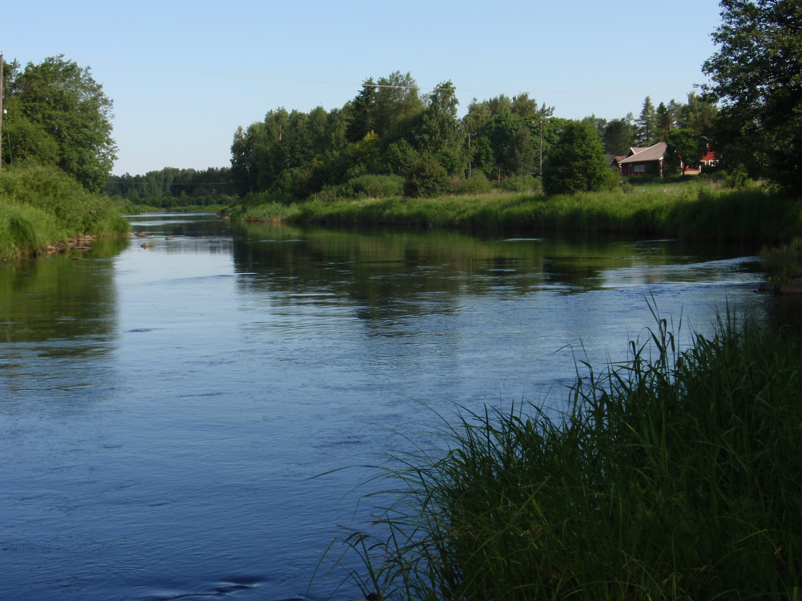 River Merikarvianjoki in Merikarvia municipality, Finland.